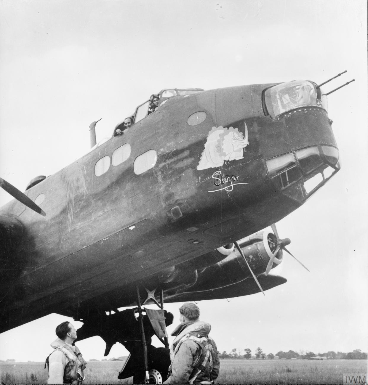 Aircrew and Nose art on "S-Sugar", a Short Stirling of No. 7 Squadron RAF, in a dispersal at RAF Oakington, Cambridgeshire.